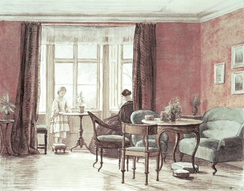 The living room at Christinelund under Nysø in Denmark. Christine is reading to her mother, Jonna Stampe néeDrewsen.